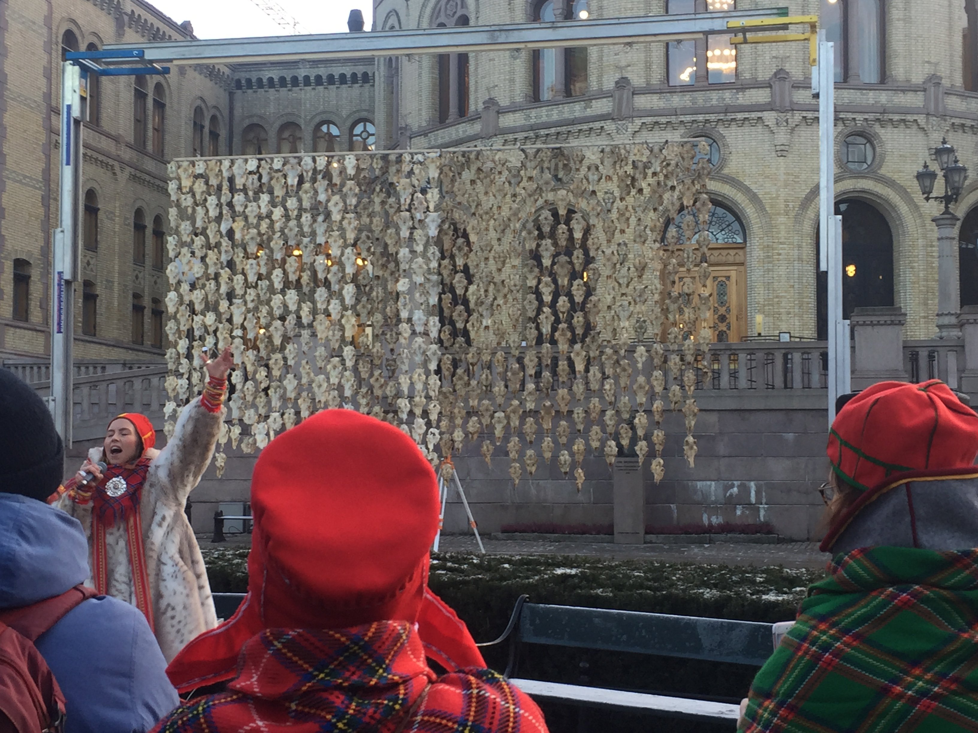 Protest was held in front of the Norwegian parliament and in the background is an art pice by Máret Ánne Sara consisting of 400 reindeer skulls